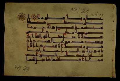 Qur'anic manuscript written in Mashq script. It has horizontal elongation at an expense of general height, resulting in the closer spacing of lines. Verses from 20 to 22 and part of 23 (Surah al-Isra').